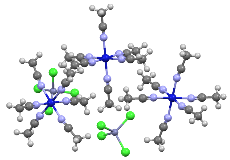 portion of the crystal structure of [Ni(MeCN)6]ZnCl4